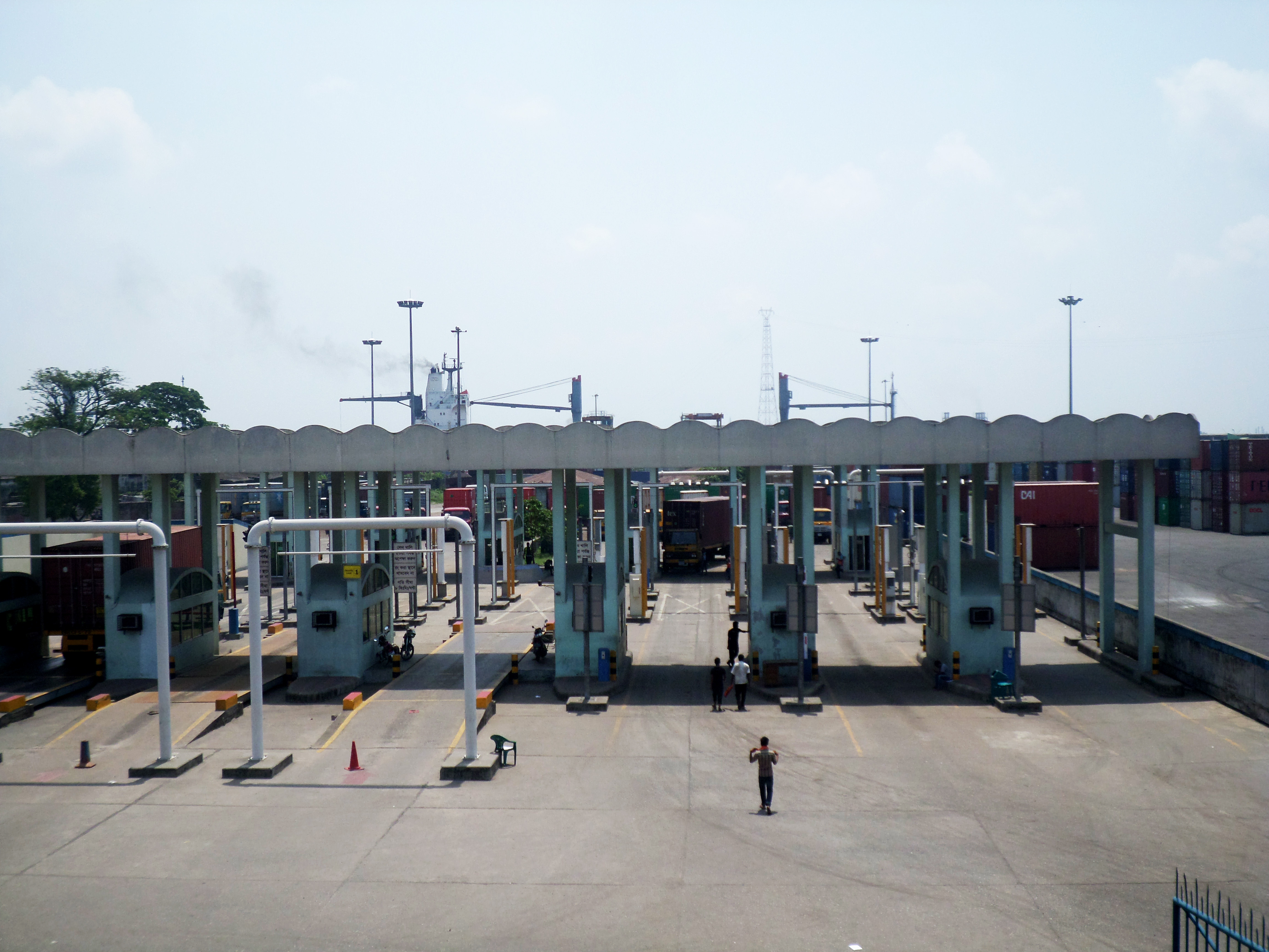 Chittagong Port Area